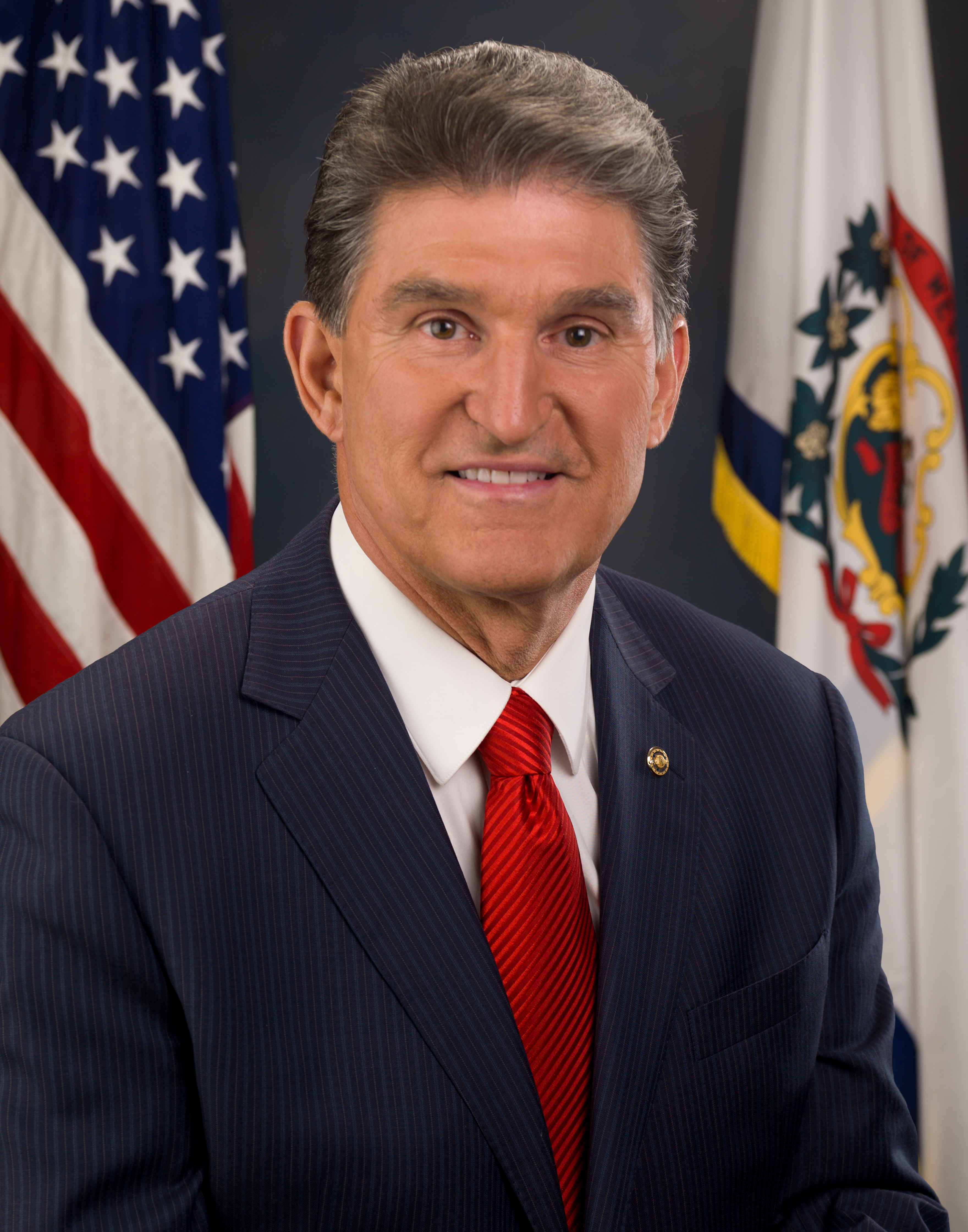 Official portrait of Senator Joe Manchin of West Virginia.